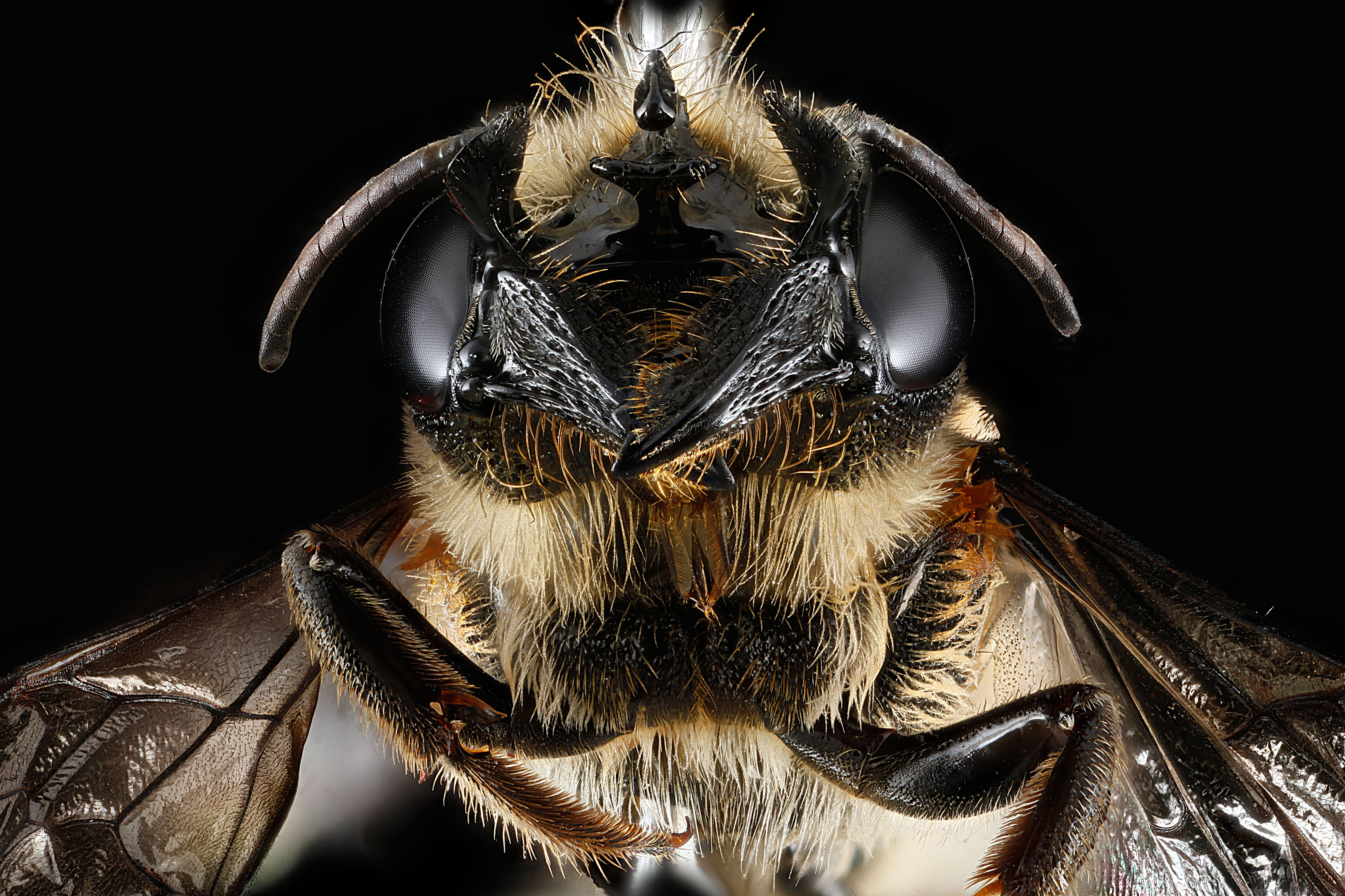 Megachile armaticeps, female. Cuba, GTMO, Female, note the structures on the clypeus! June 2011